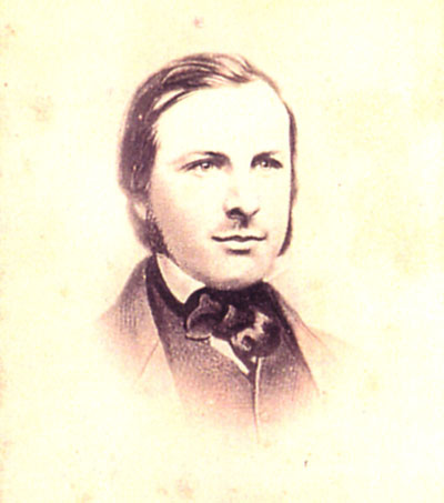 Augustus Welby Northmore Pugin, English Victorian architect 1812–1852